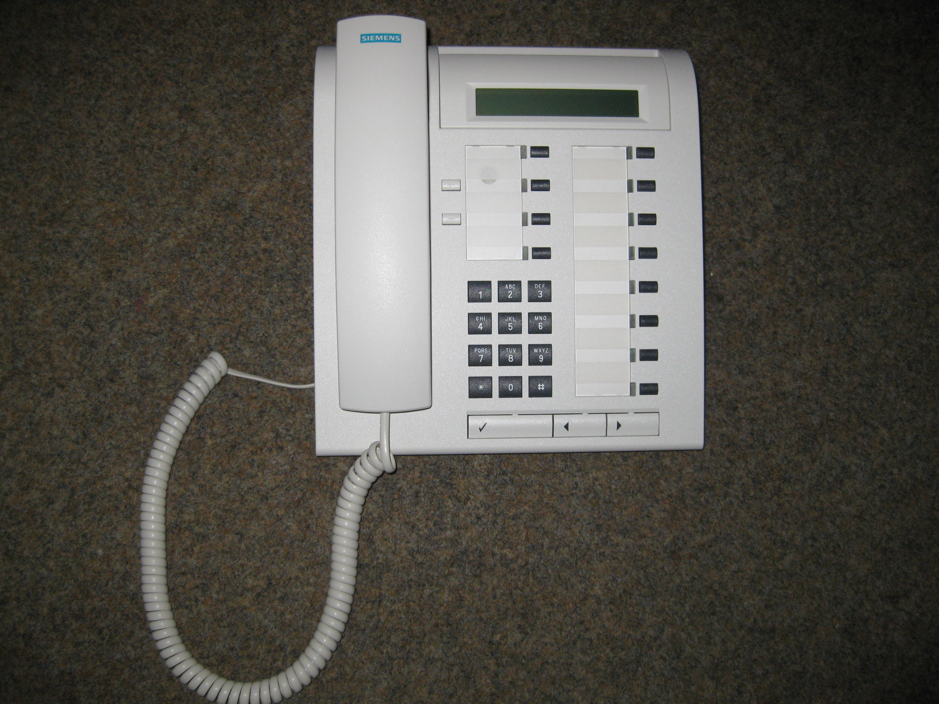 A Phone from a Hicom or Hipath, named Optiset E